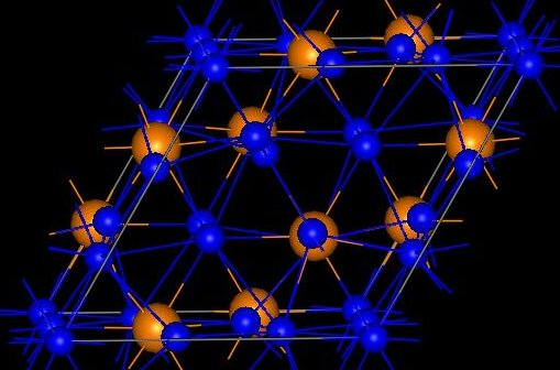 Cu3P structure. Orange atoms are phosphorus Journal = ACTA CHEMICA SCANDINAVICA, Year = 1972, Volume = 26, Page = 2777–2787, Title = The Crystal Structure of Cu3P, Authors = Olofsson O.